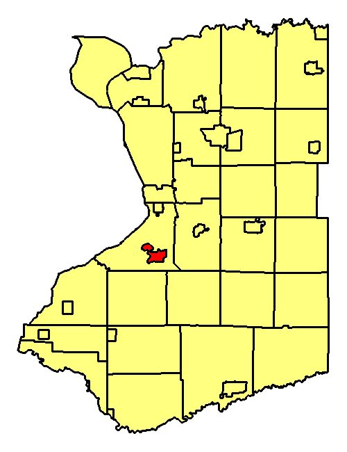 Position of the town, city, village, or reservation within Erie County, New York